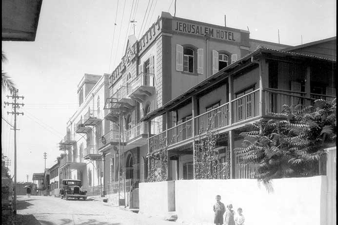 The American-German Colony in Tel Aviv, 1920